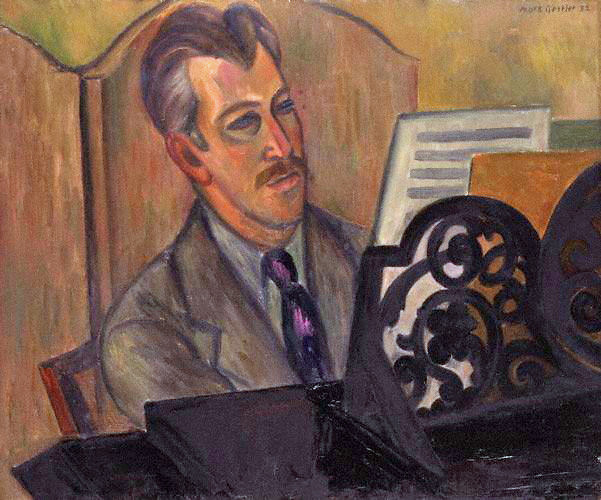 Sir Arthur Bliss by Mark Gertler, 1932. National Portrait Gallery, London